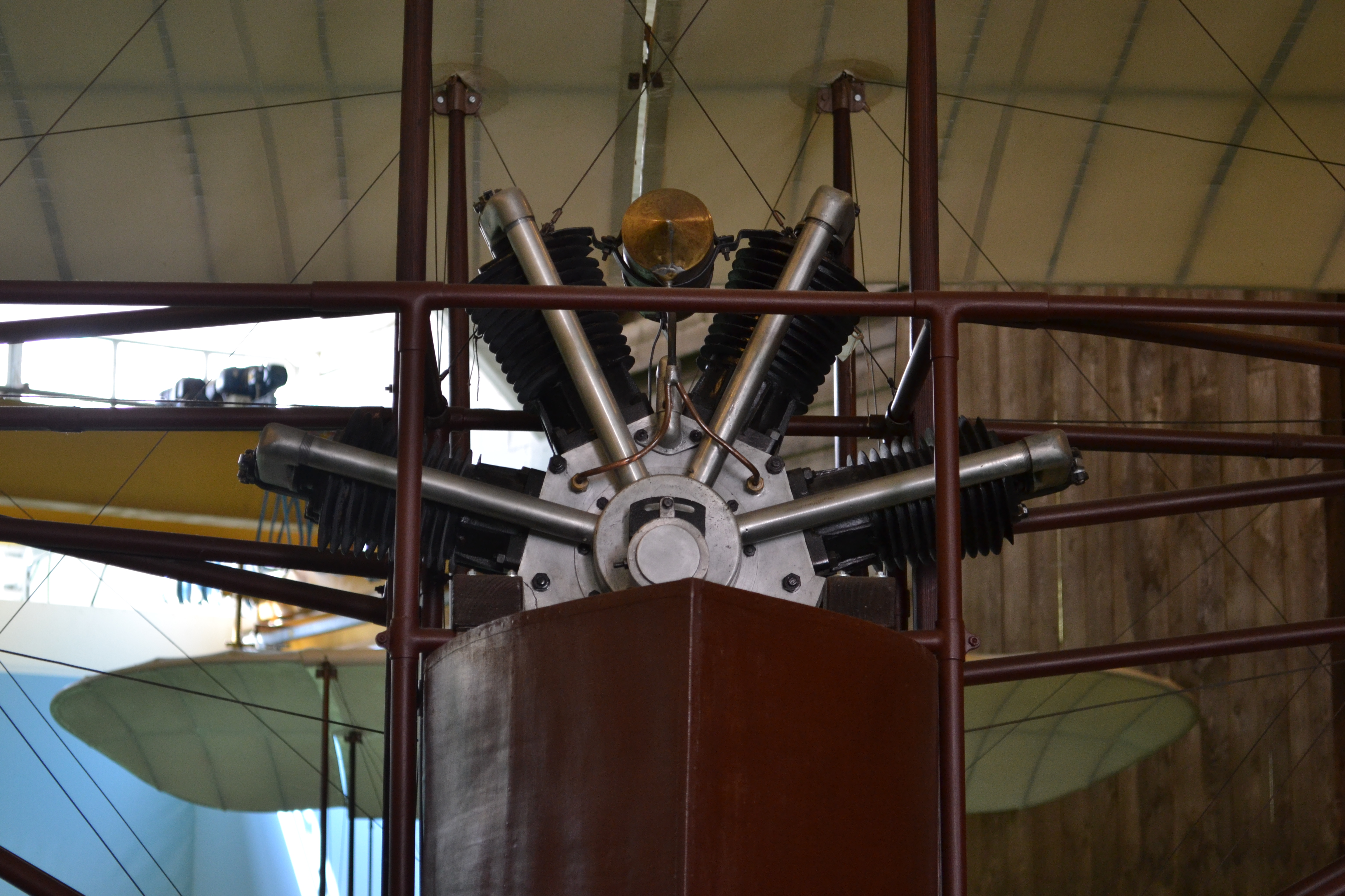 A detail of the Miller 4-cylinder 25 hp fan engine of the Caproni Ca.1 Italian pioneer biplane, on display at the Volandia aviation museum in the province of Varese.